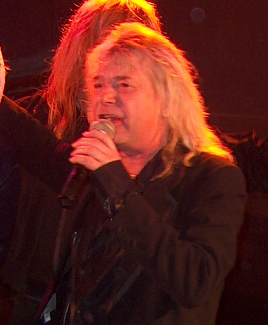 Bob Catley, vocalist of the rock band Magnum